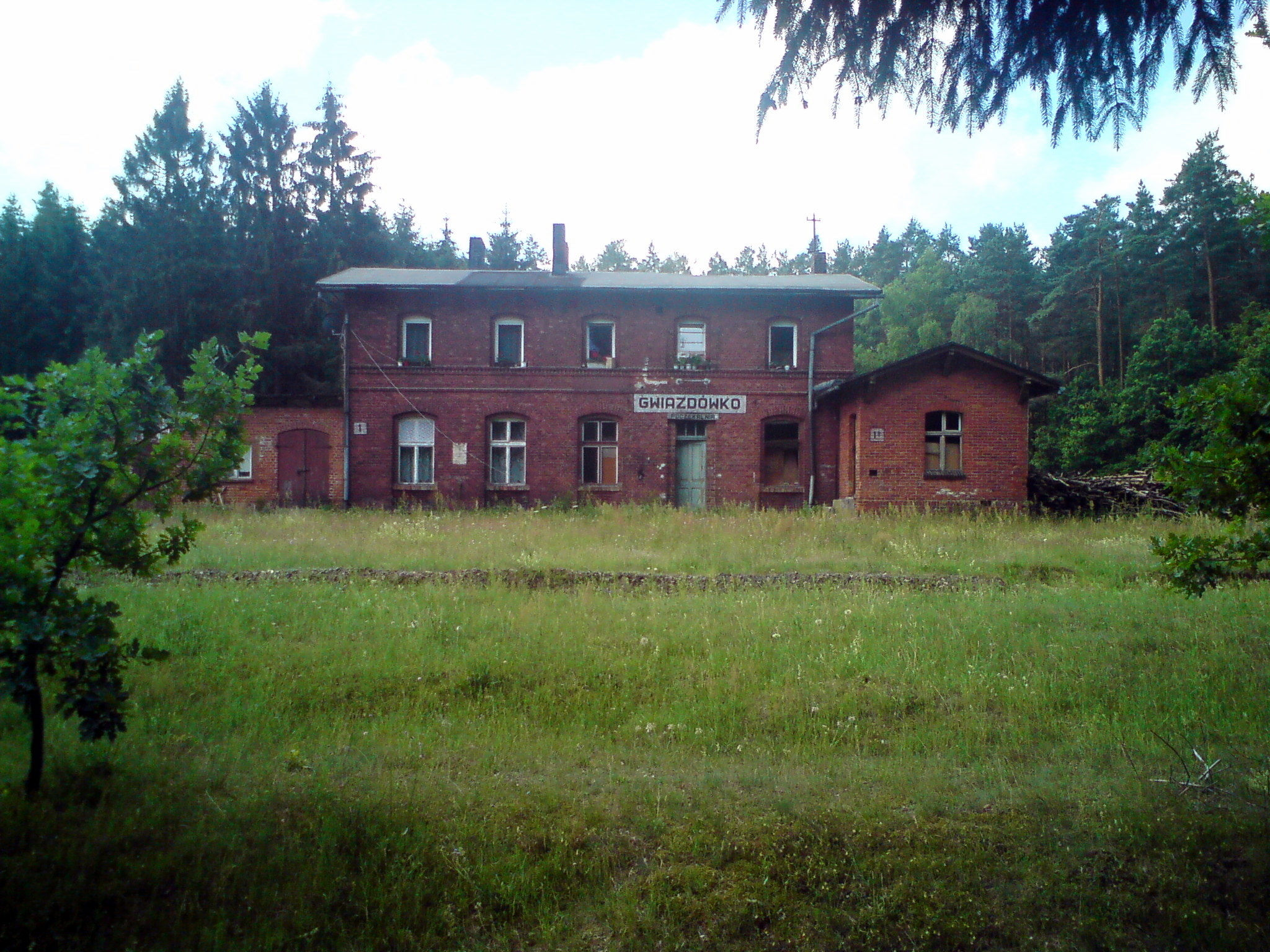 Old railstation building in Gwiazdówko